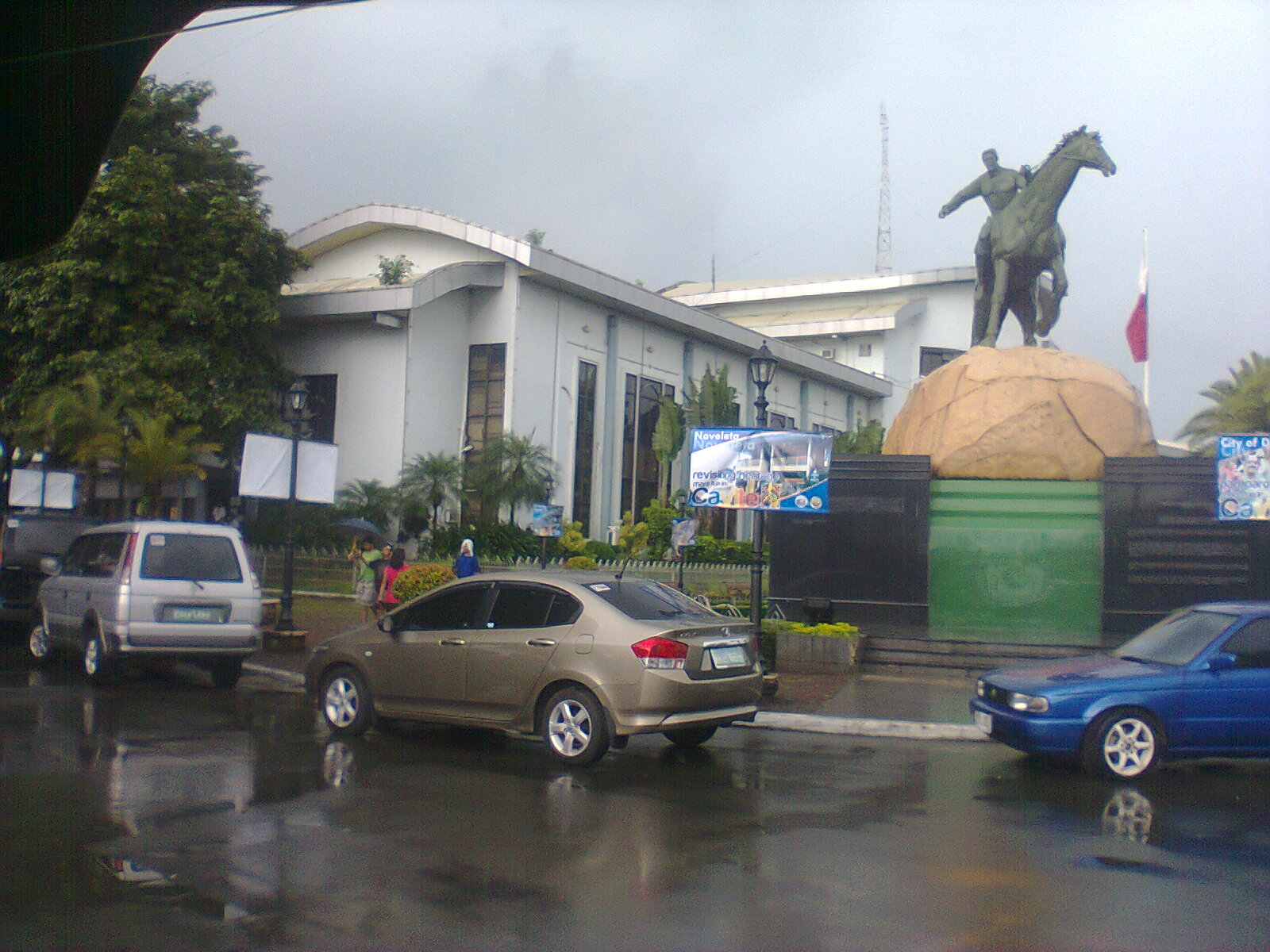 The Provincial Capitol of Cavite, located in the City of Trece Martires.